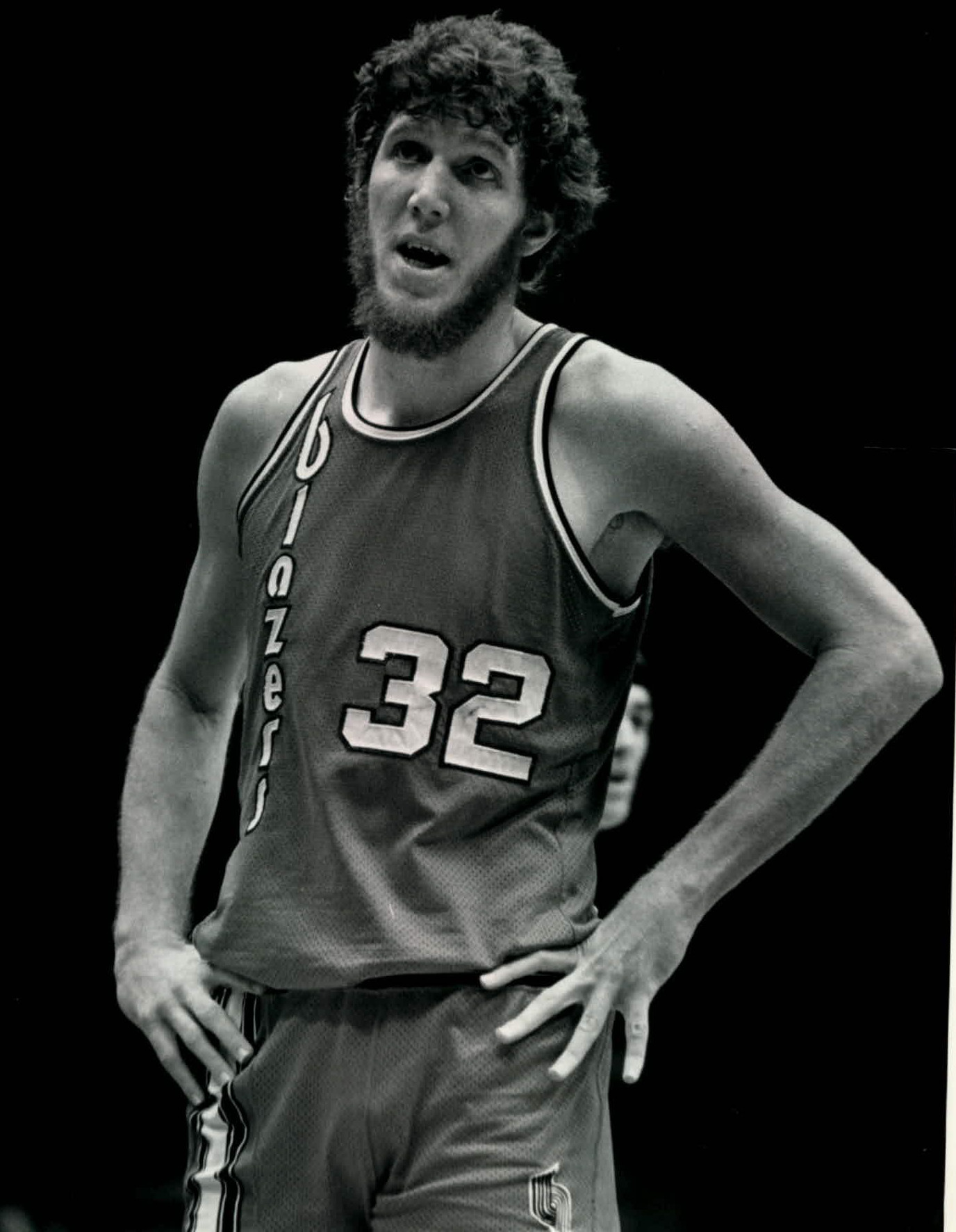 Professional basketball player Bill Walton